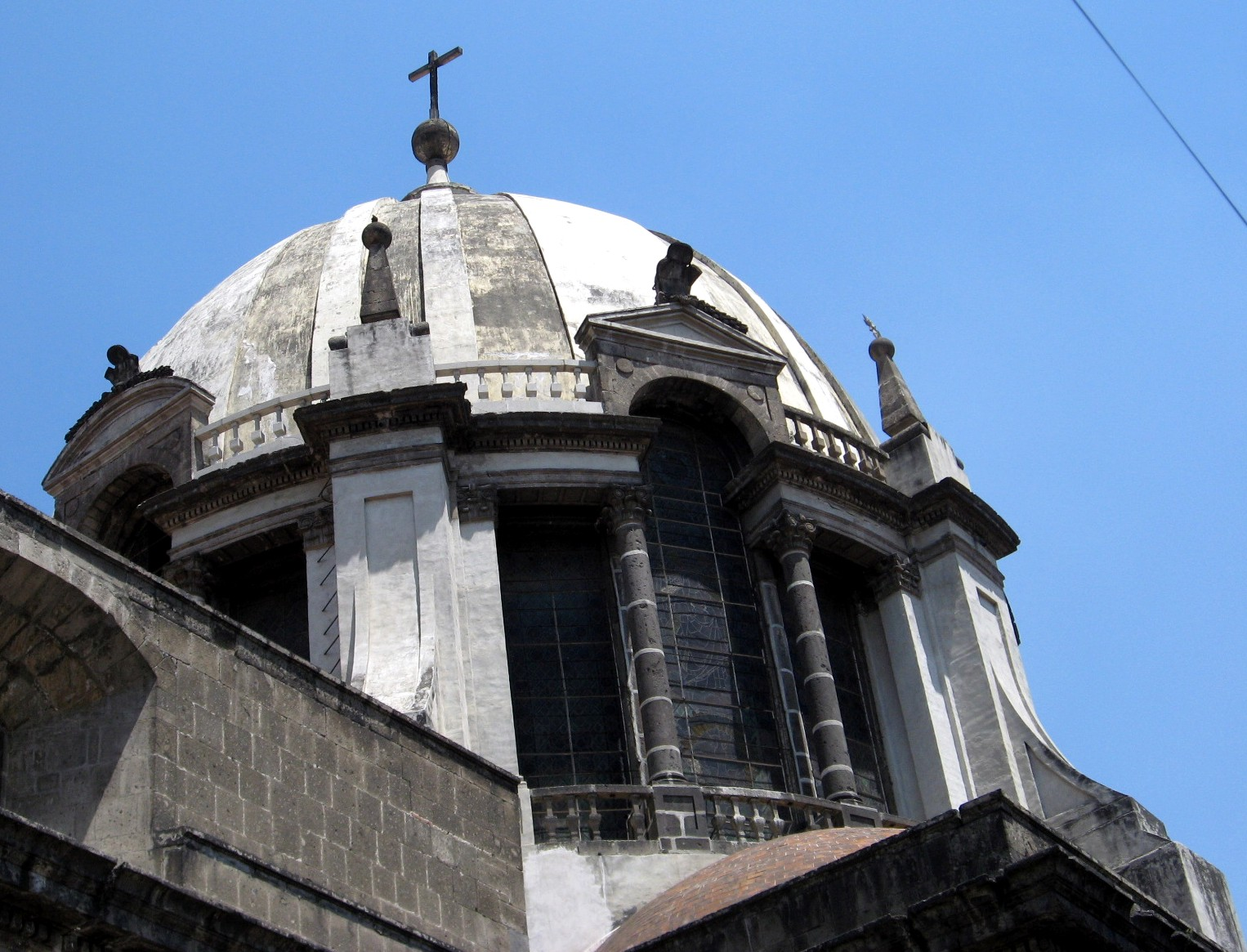 Dome of the Nuestra Señora de Loreto Church in the historic center of Mexico City